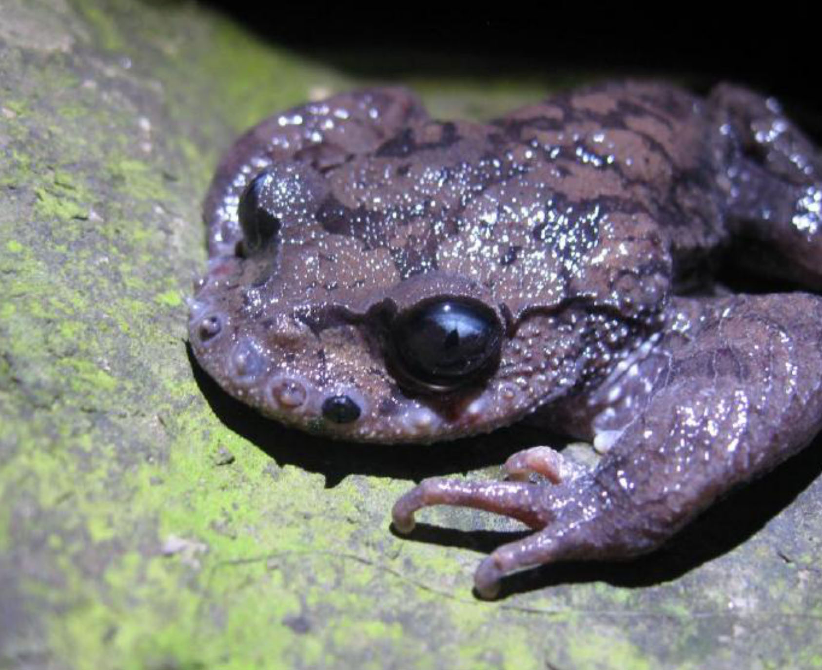 Leptobrachium boringii male losing his nuptial spines at the end of the breeding season.